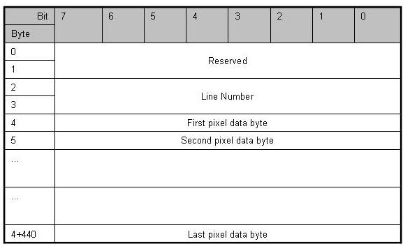 data format to send pixels to the drive for LabelTag